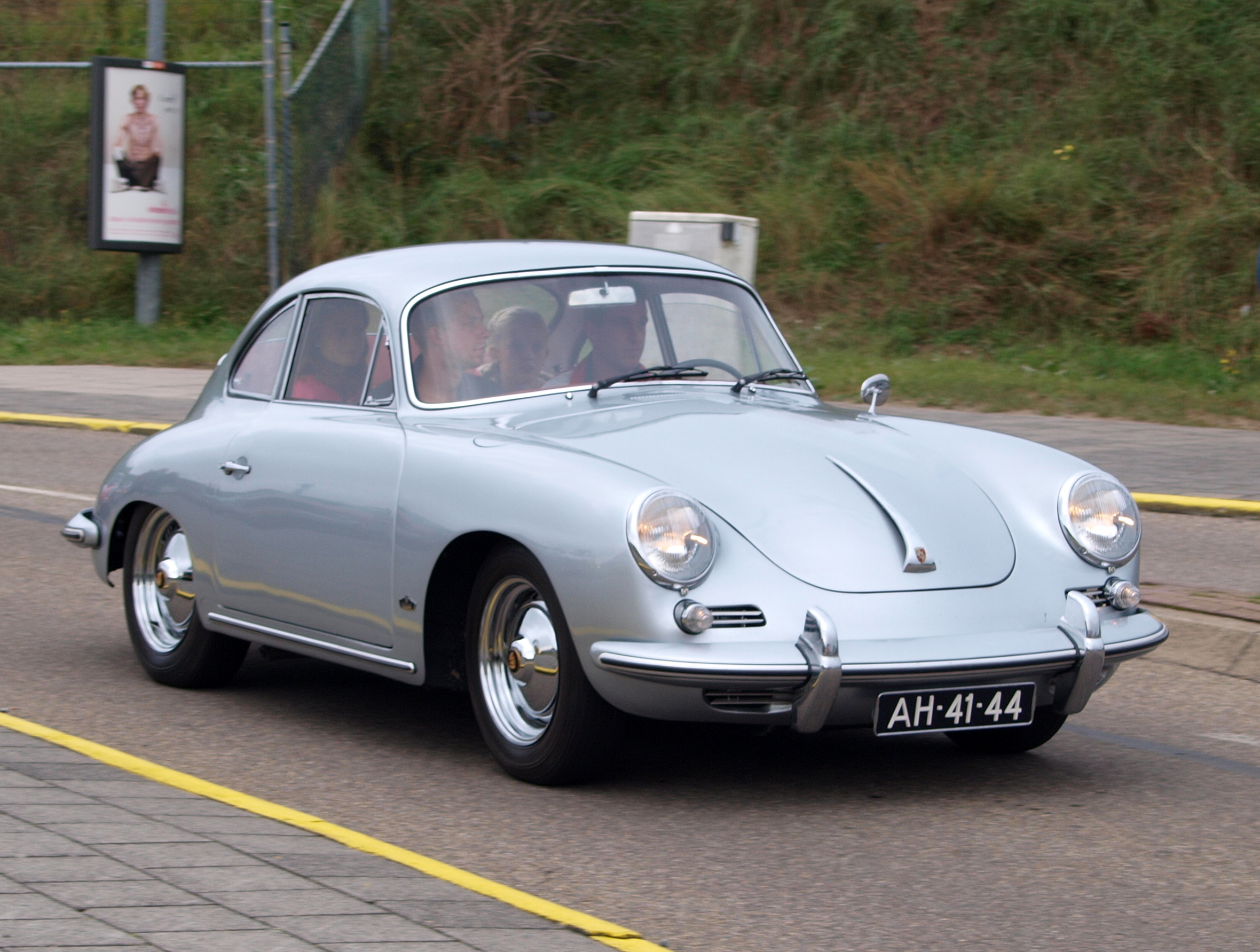 Photographed at the Nationaal Oldtimer Festival Zandvoort 2010, The Netherlands.